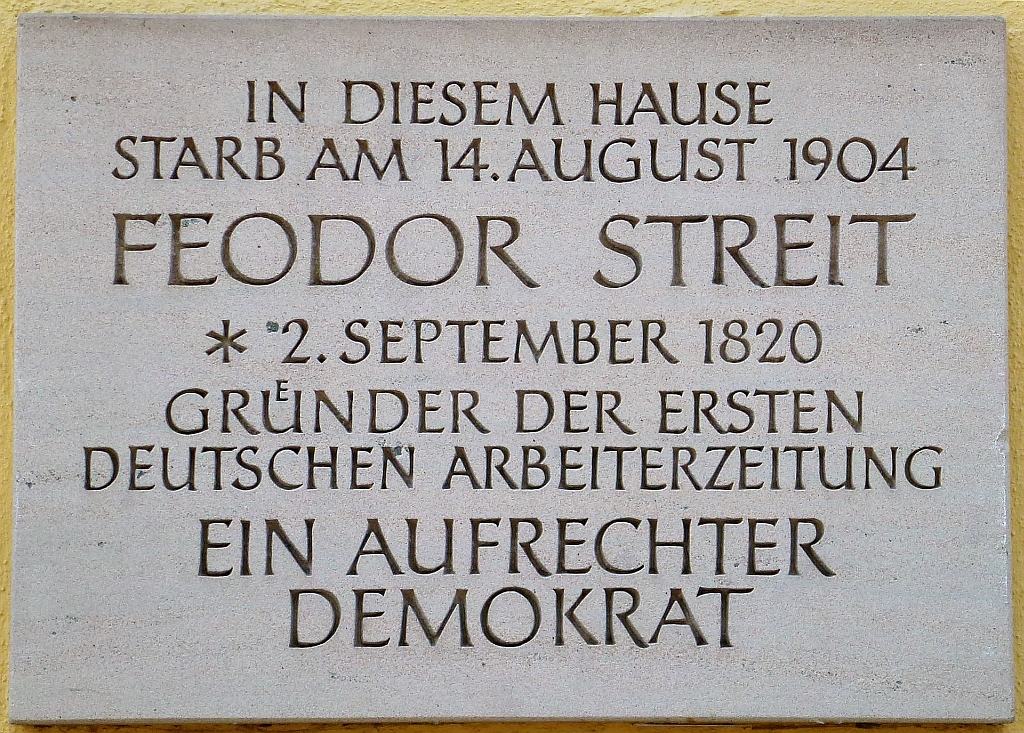 Commemorative plaque for Feodor Streit - Coburg, theater place number 4a